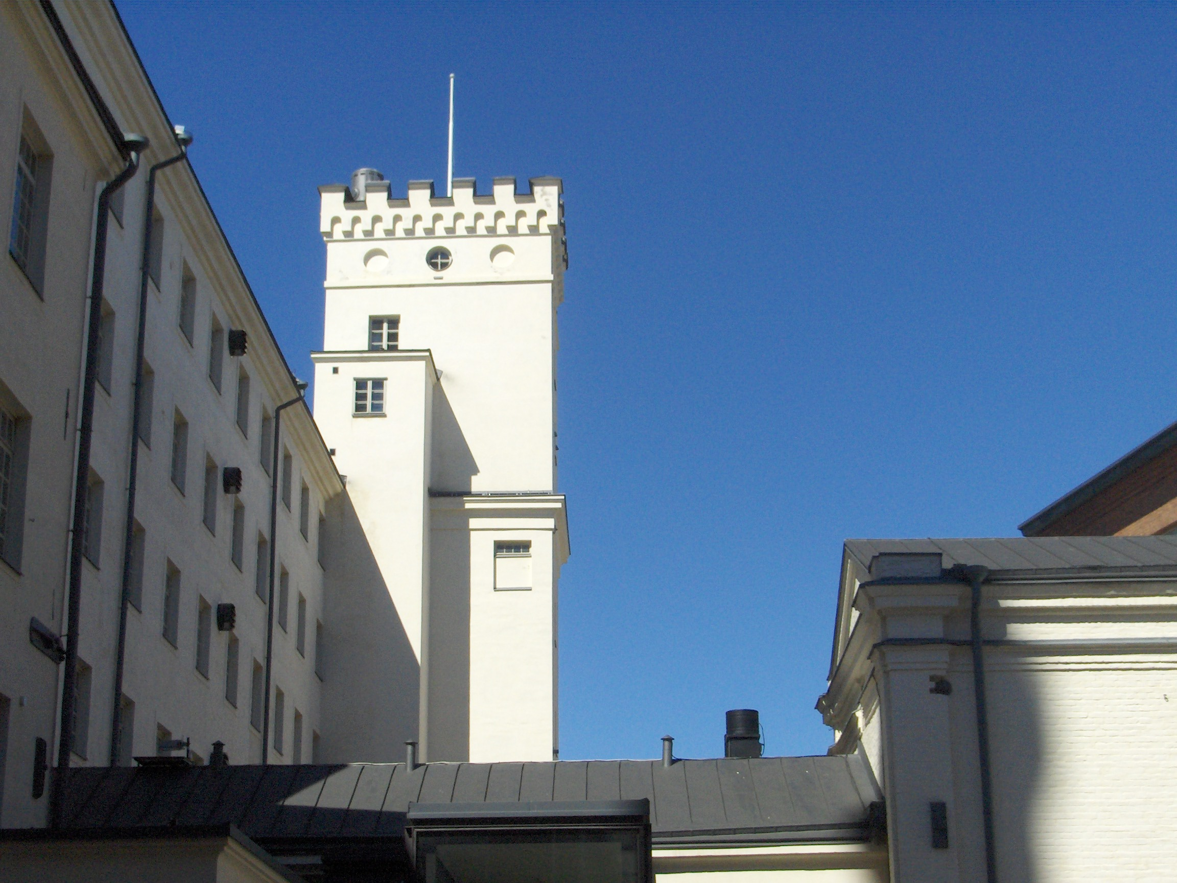 Finlayson factory area in Tampere